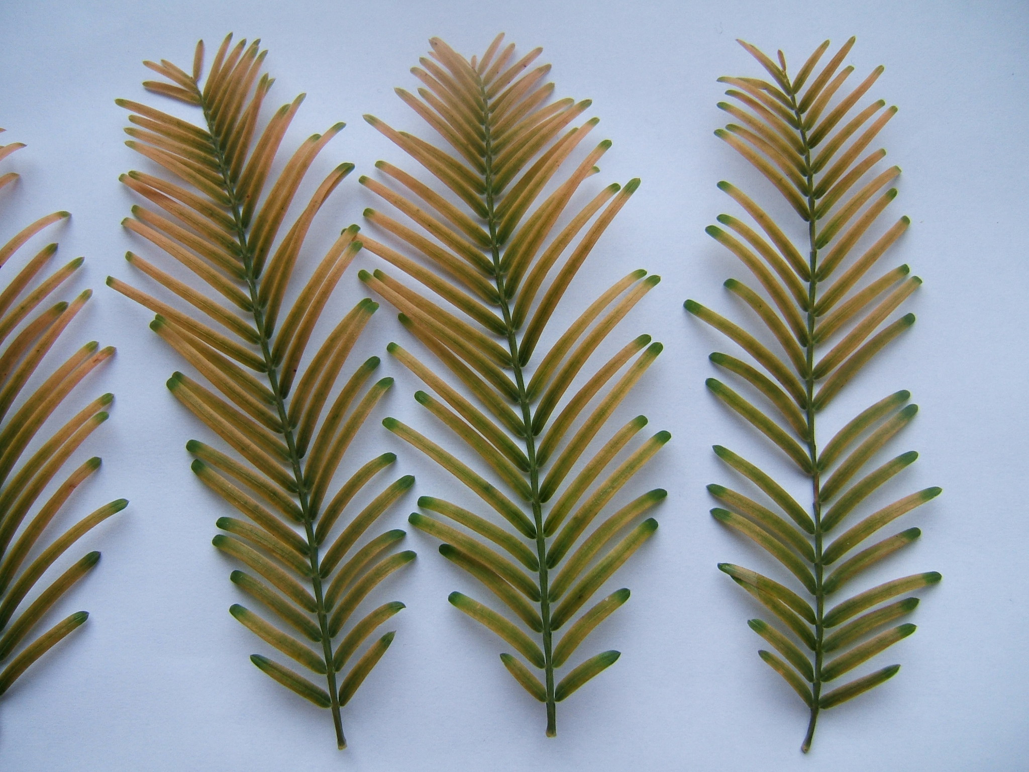 Metasequoia glyptostroboides fallen foliage: the foliage falls in whole shoots (not individual leaves), a process known as cladoptosis